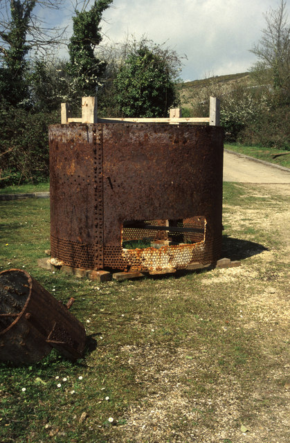 Part of a funnel from the SS Great Eastern Brunel's SS Great Eastern (also known as Leviathan) suffered a disastrous explosion in a funnel casing while on trial. She put in to Weymouth for repairs and part of the funnel became a filter in a reservoir at Sutton Poyntz. This is it following withdrawal from service. It is now down in Bristol with Brunel's SS Great Britain. An amazing and relatively little known survivor (while at Sutton Poyntz).